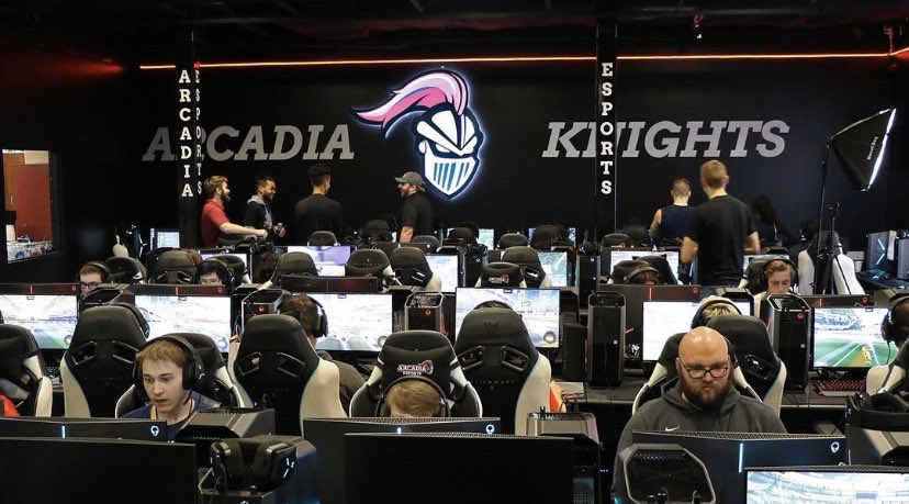 ESports arena at Arcadia University.